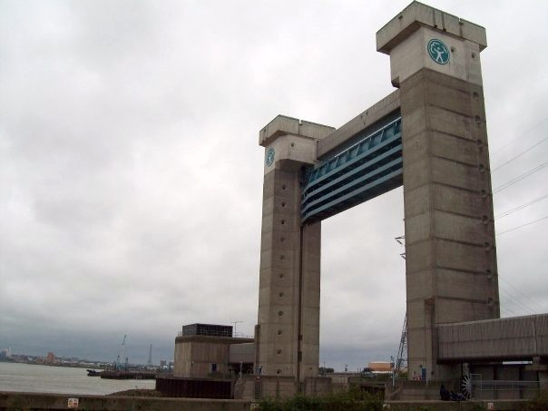 The Barking Creek tidal barrier where Barking Creek joins the River Thames Captioned As { }